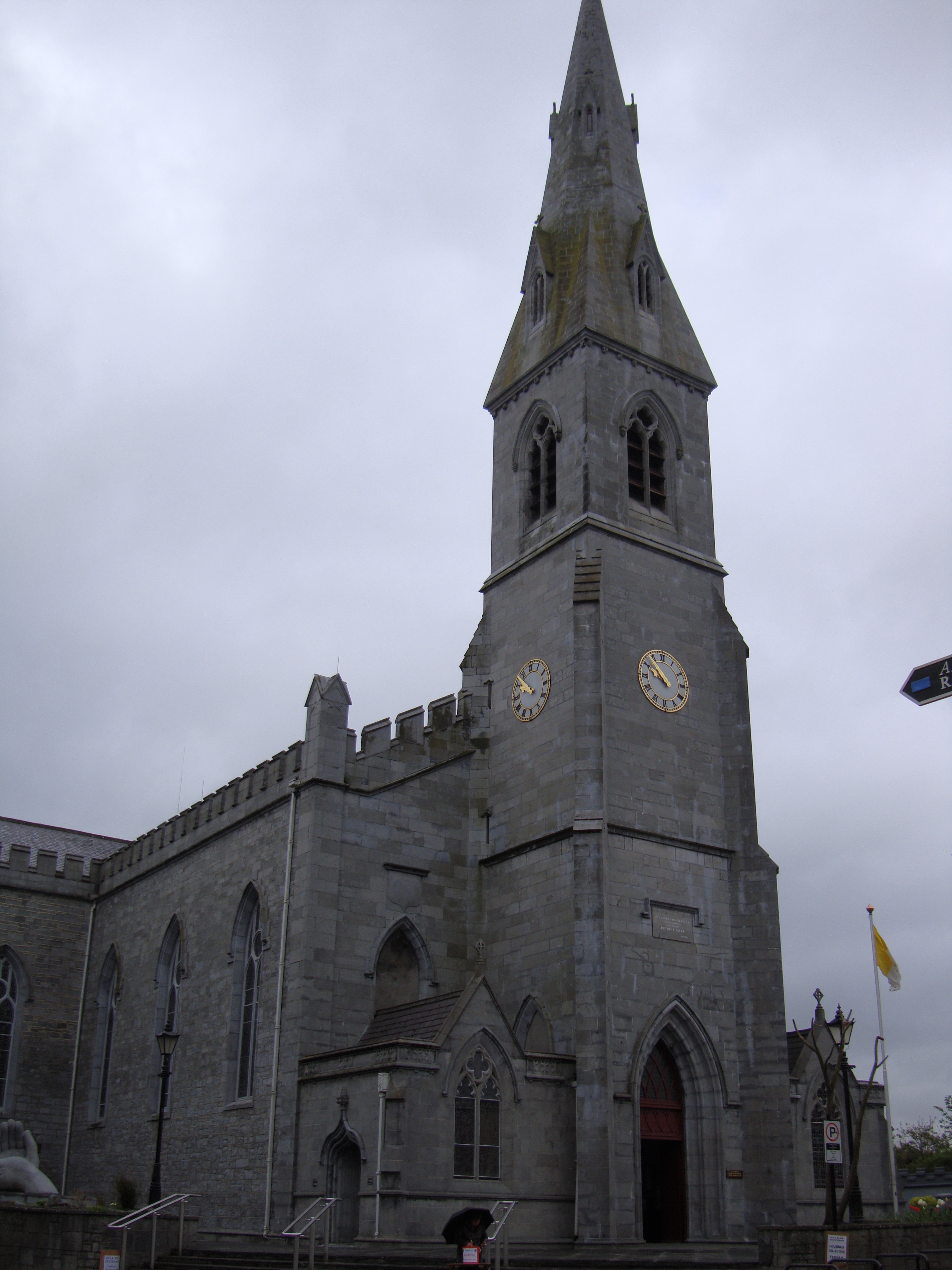 Photograph of Ennis Cathedral, Co. Clare, Ireland